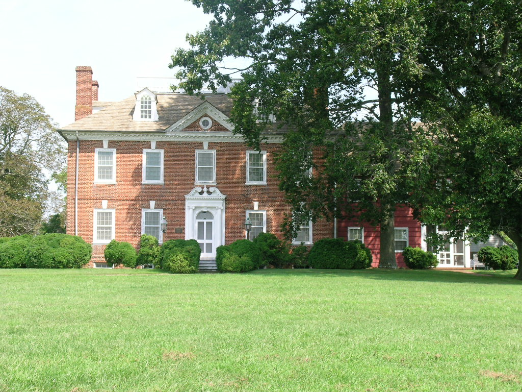 An image of the Mt. Harmon mansion house. The Georgian-style mansion was built by Sidney George around 1788.